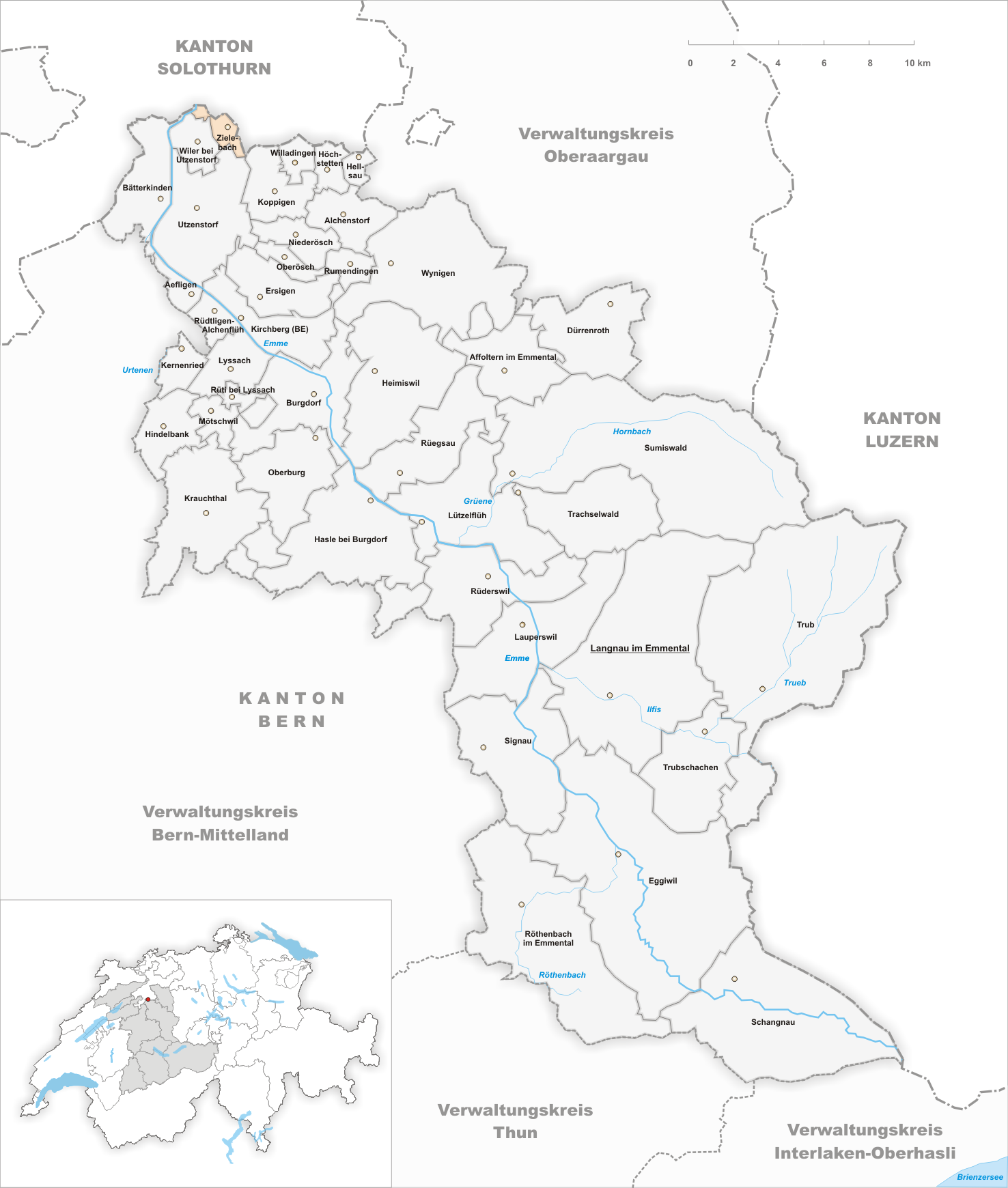 Municipality Zielebach